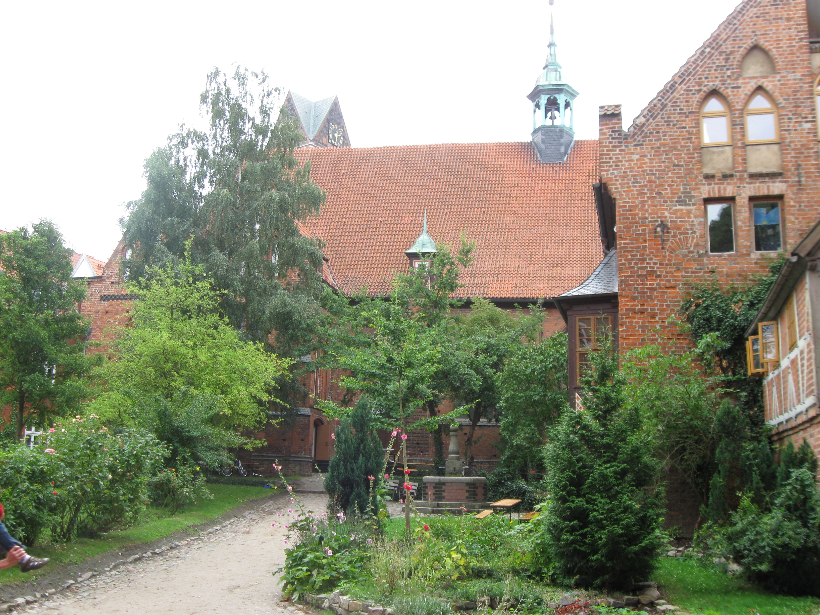 The backyard from the curch Heiligen-Geist-Kirche in Wismar